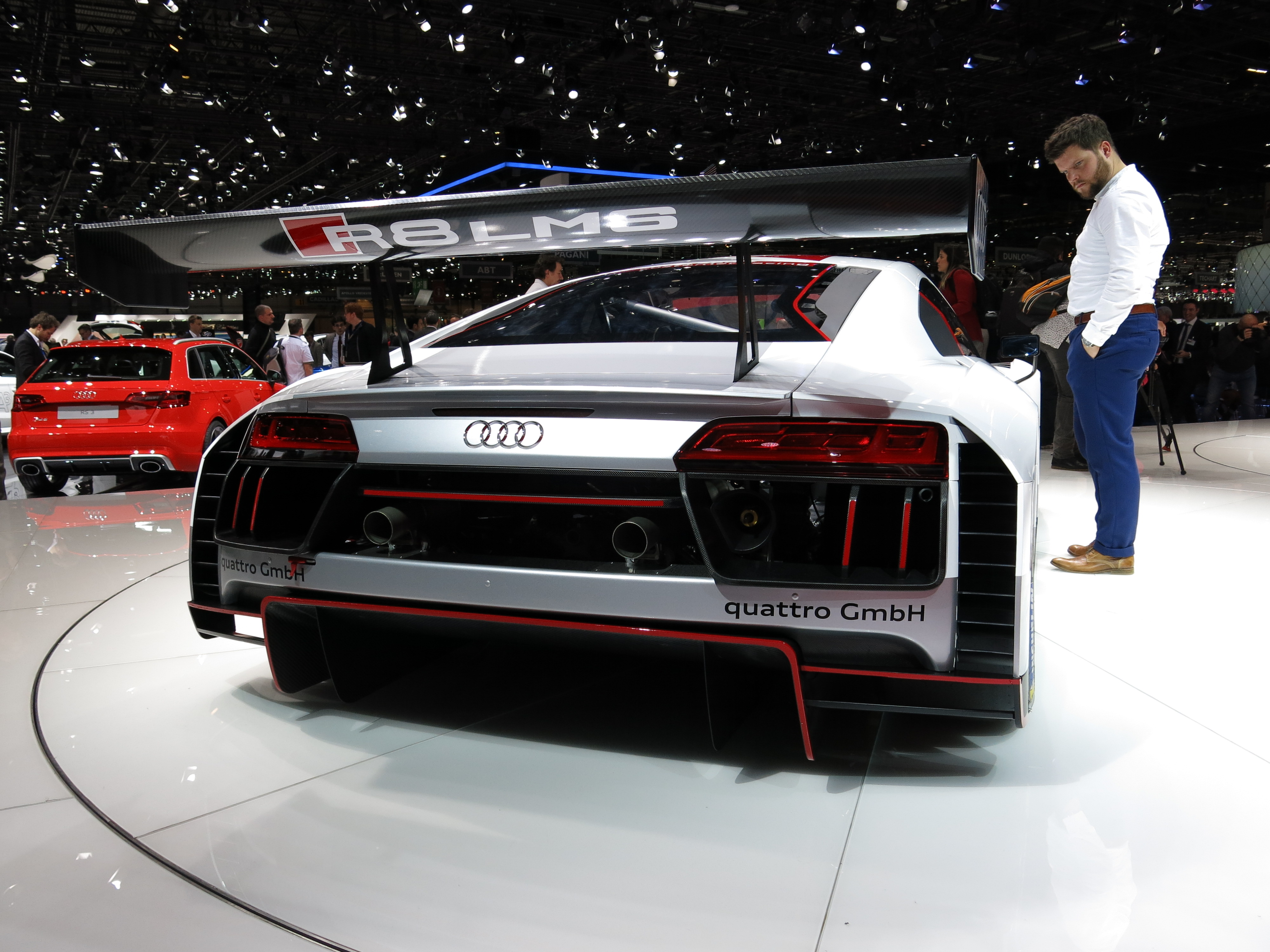 Geneva Motor Show 2015 (photo taken on the first press day)